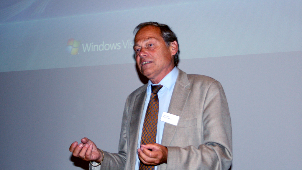 Director Willy Jensen in the Norwegian Post and Telecommunications Authority.